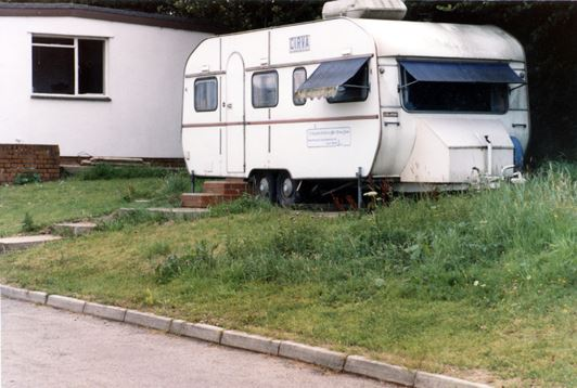 The Caerphilly Study mobile unit, located in the grounds of the Caerphilly District Miners' Hospital during the late 1980s.